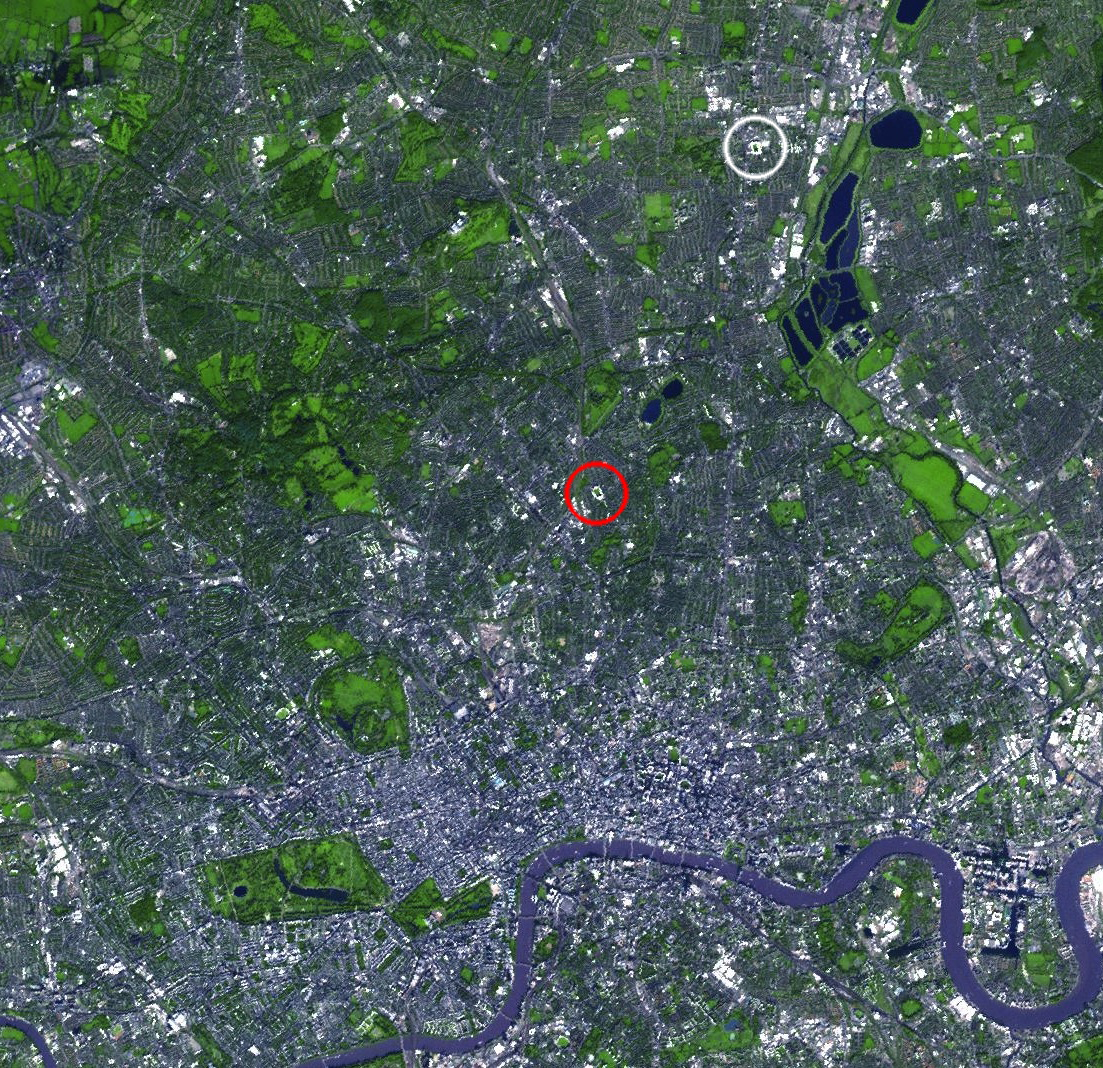 Satellite image showing relative locations of Arsenal (red) and Tottenham (white) football stadia, north London